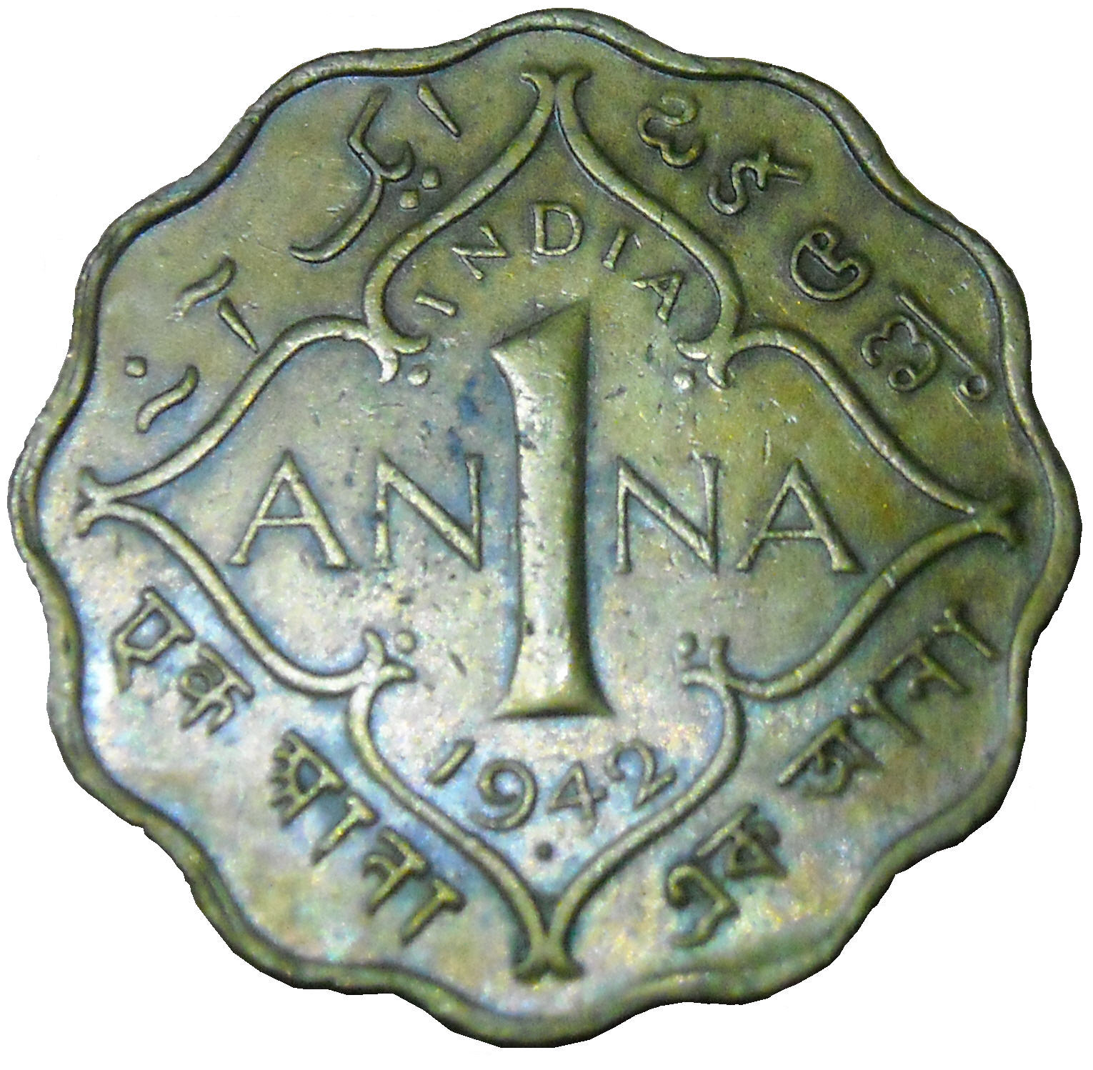 1 Anna British Indian Empire. George VI. 1942. Revers.